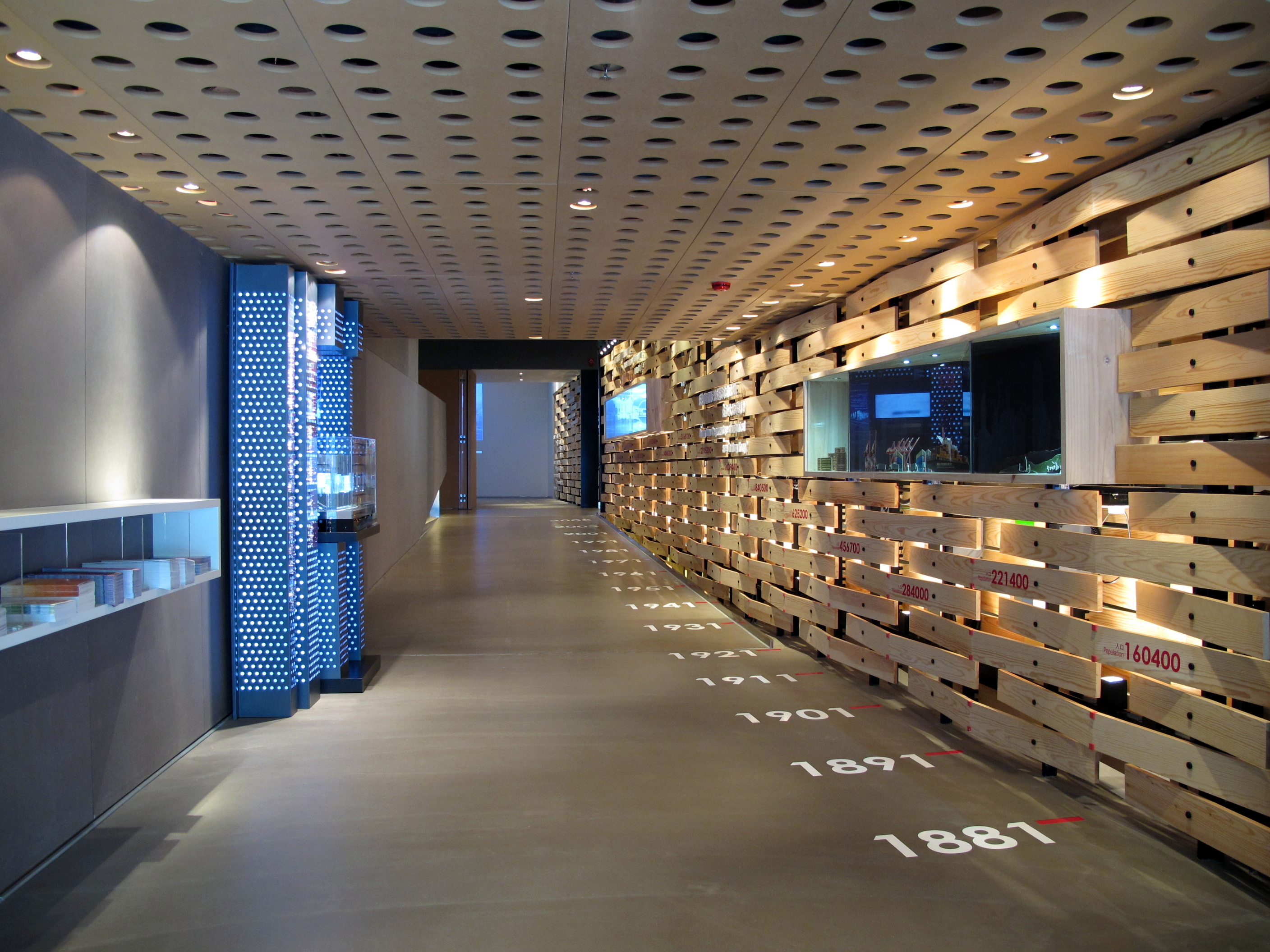 Hong Kong Planning and Infrastructure Exhibition Gallery 香港規劃及基建展覽館